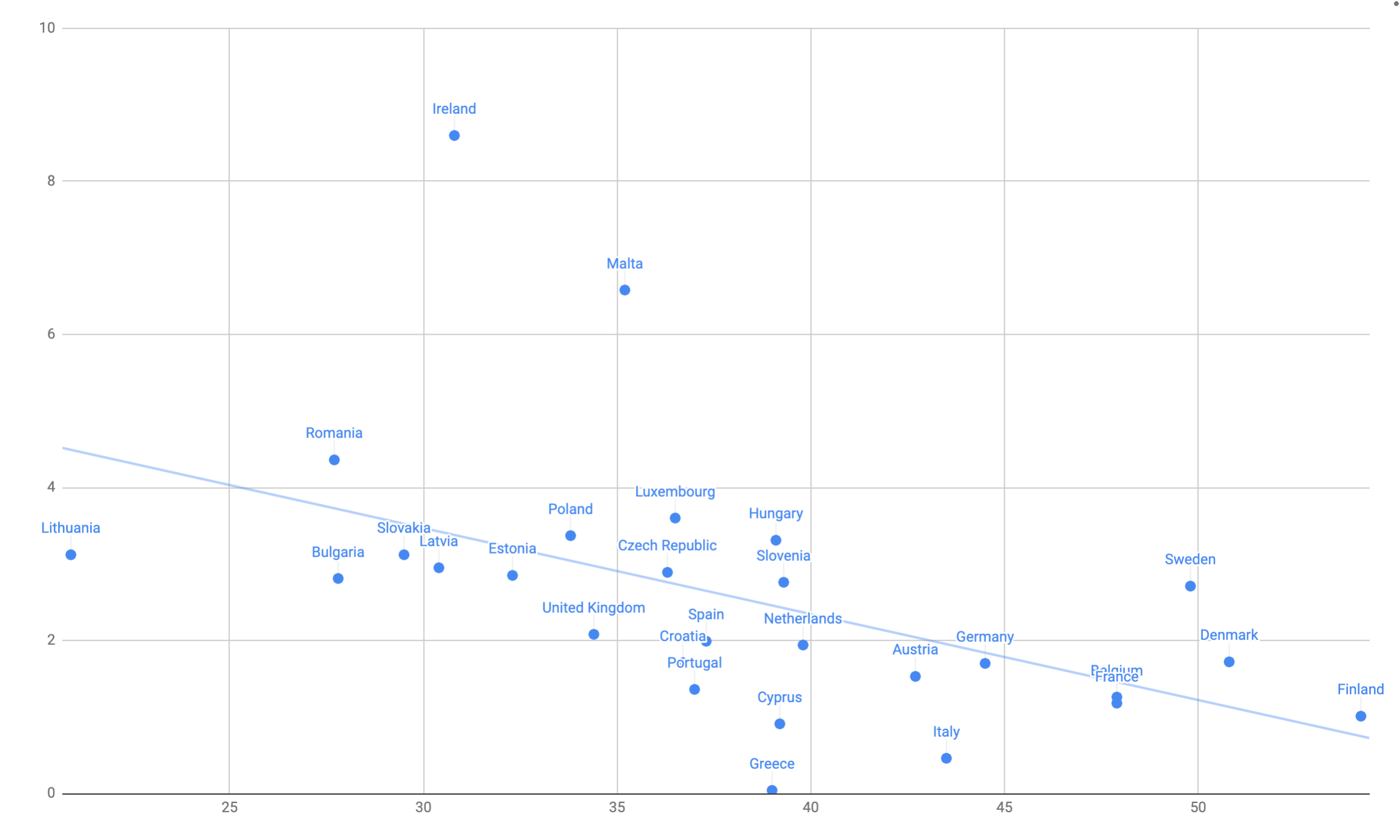 Relation between the tax revenue to GDP ratio and the real GDP growth rate - EU